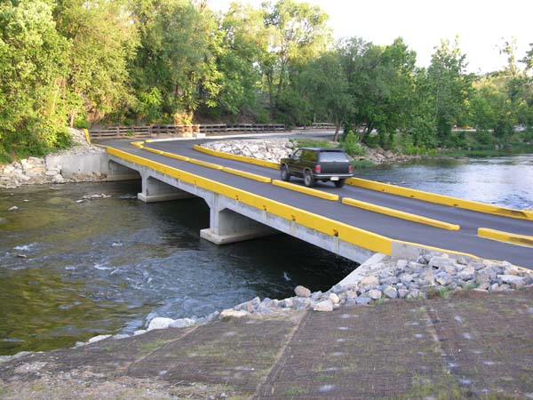 Low water crossing of the Roanoke River in Roanoke, Virginia, USA